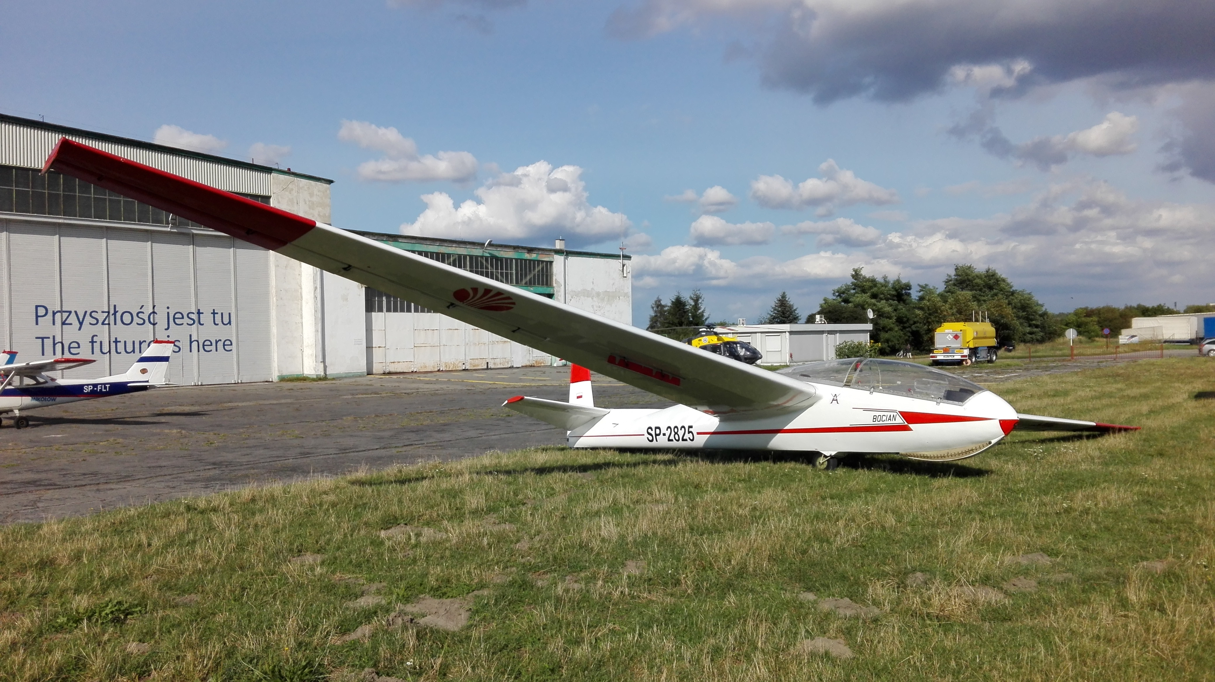 SZD-9 Bocian bis 1E